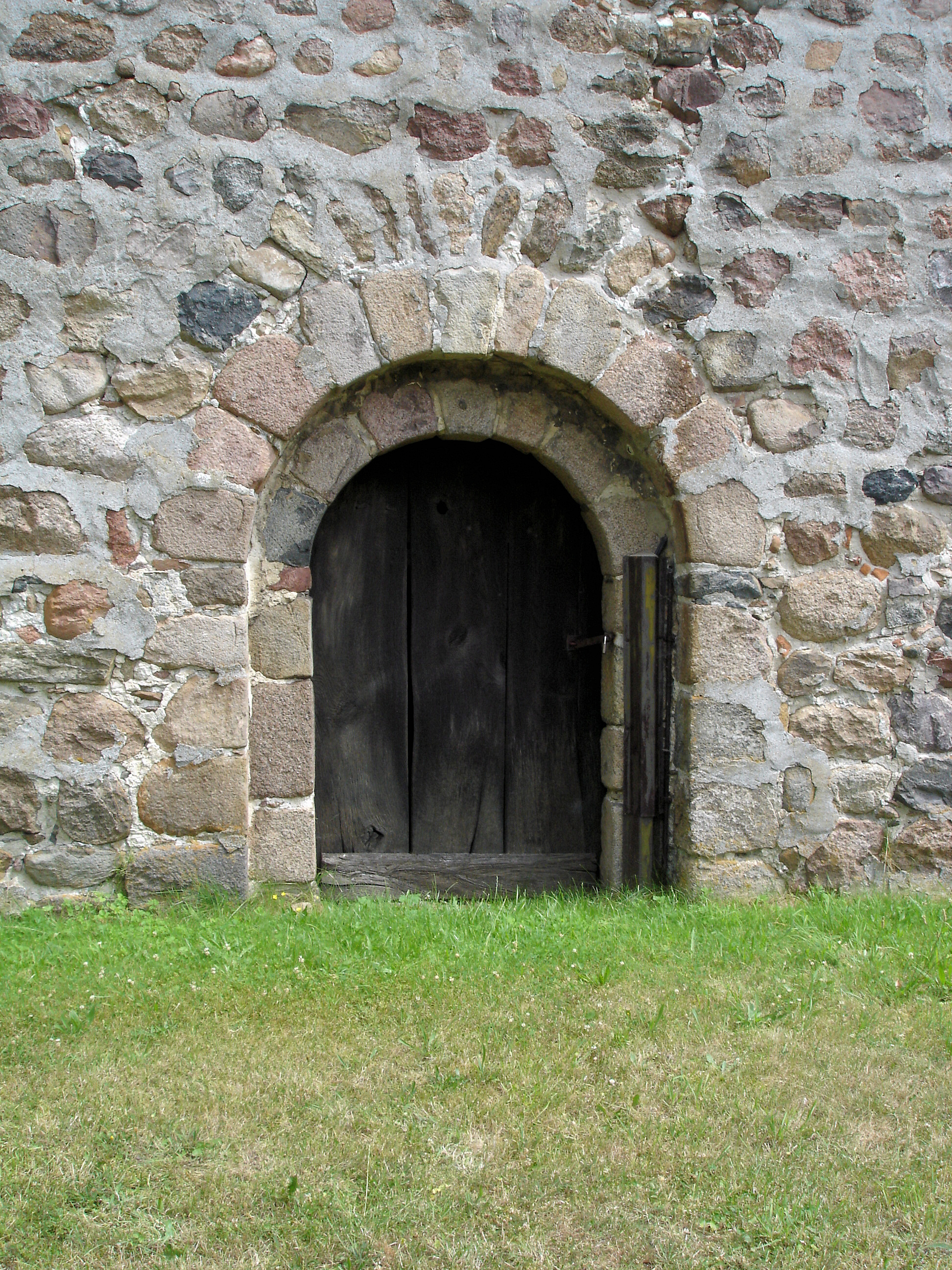 Church in Winterfeld, Saxony-Anhalt, Germany